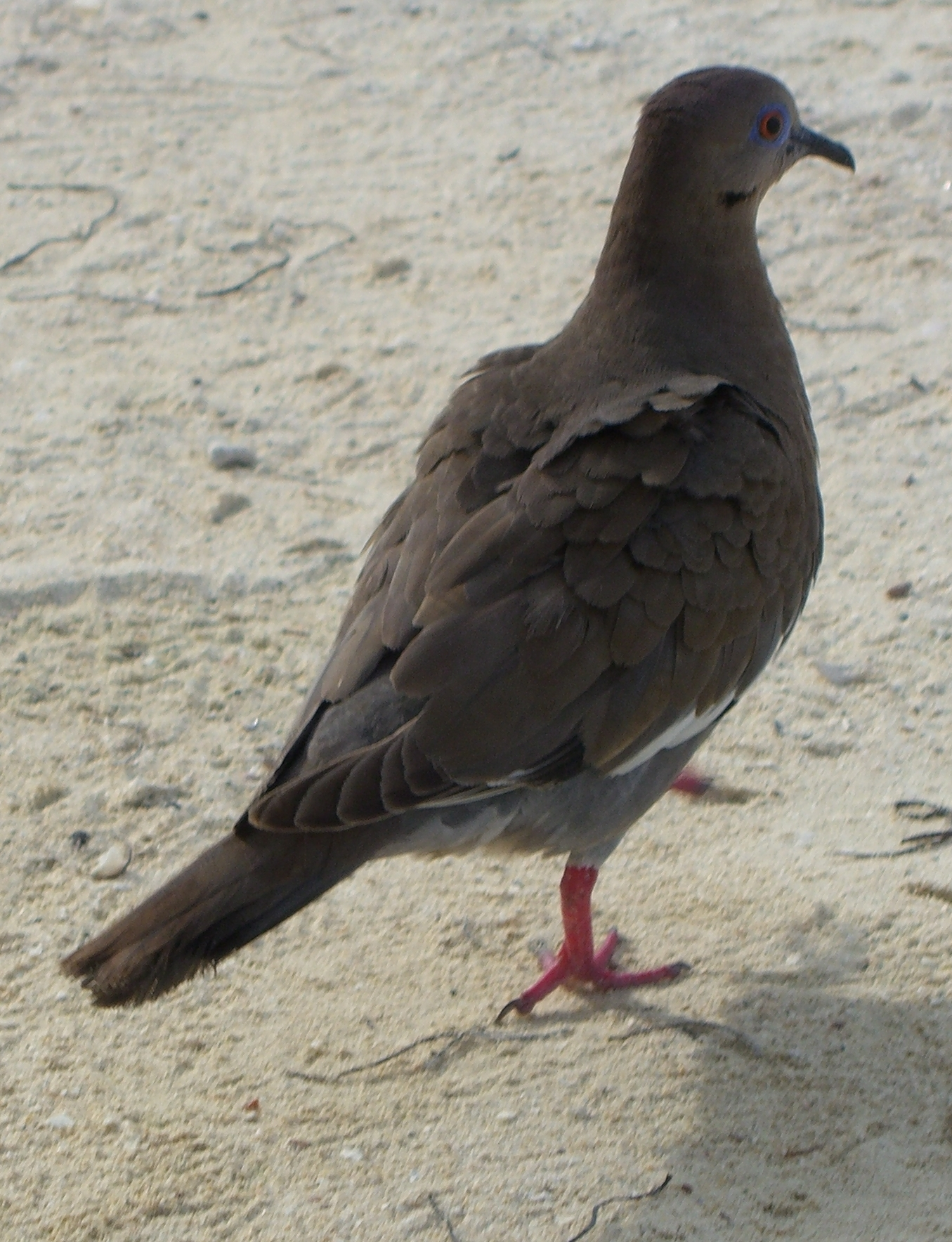 Please report references to .